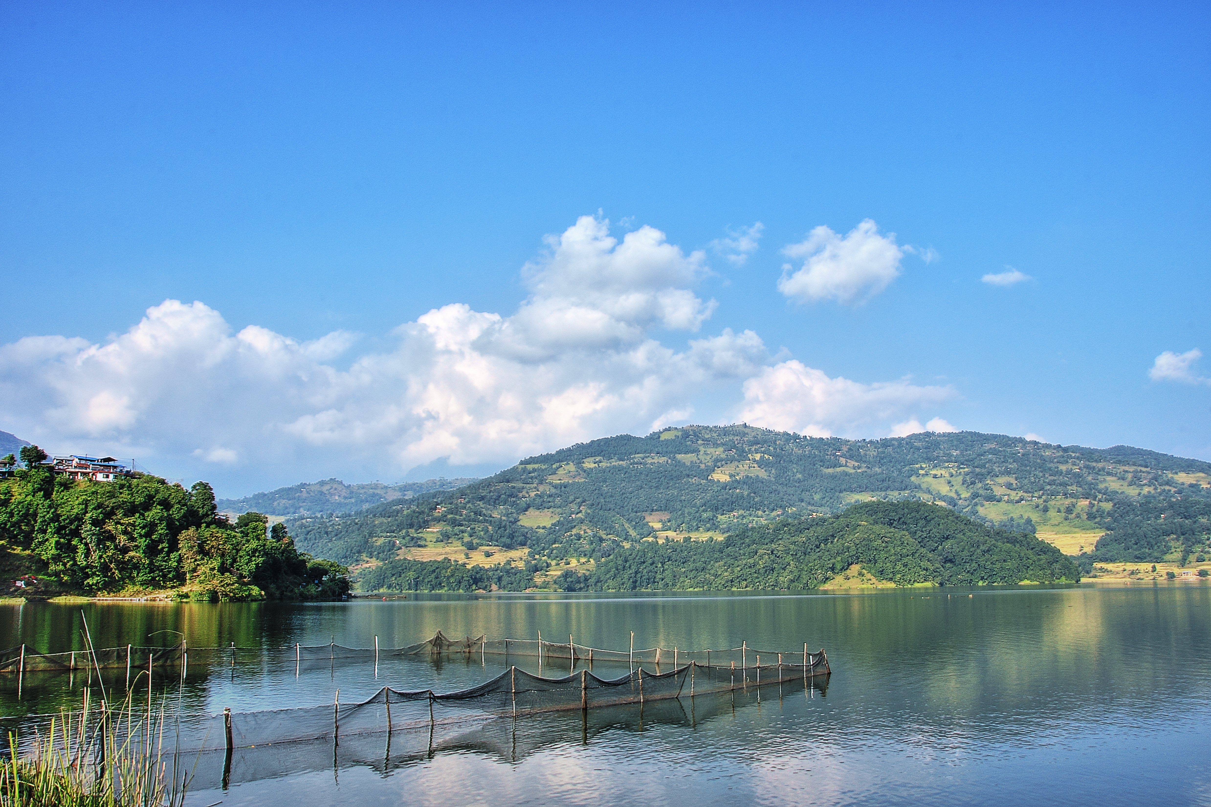 Begnas Lake, Lekhnath, Kaski, Nepal.